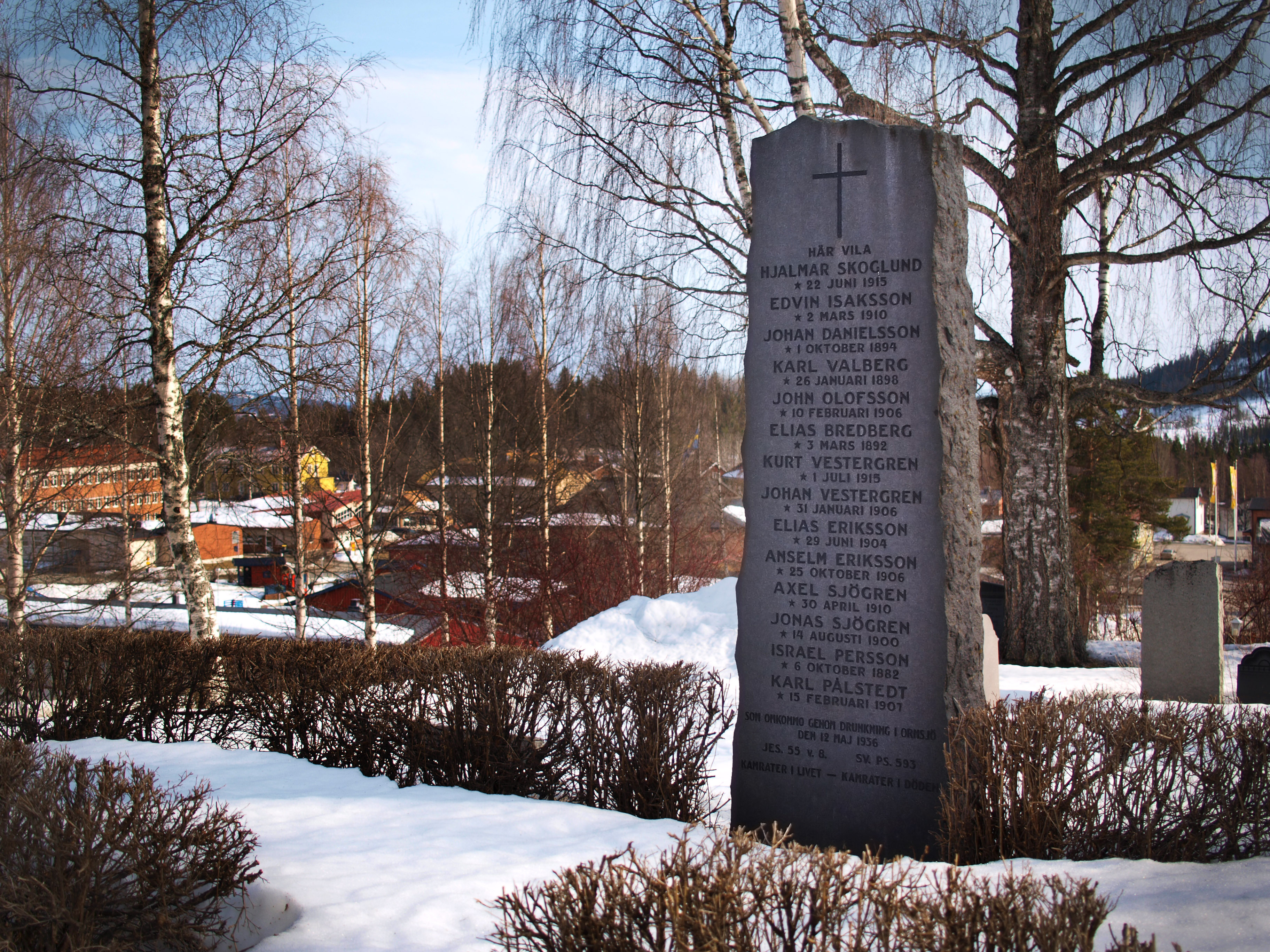 Headstone at the cemetery in Dorotea, Sweden, commemorating the victims of the Ormsjö disaster 1936, when 14 people drowned while timber rafting.